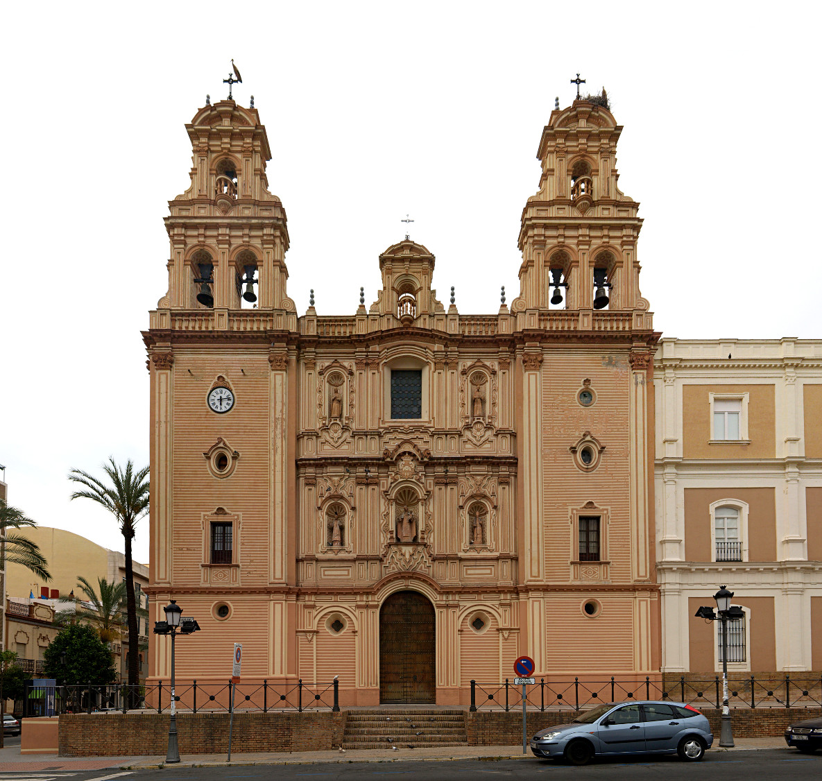 Huelva Cathedral; stitch of 8 vertical images.